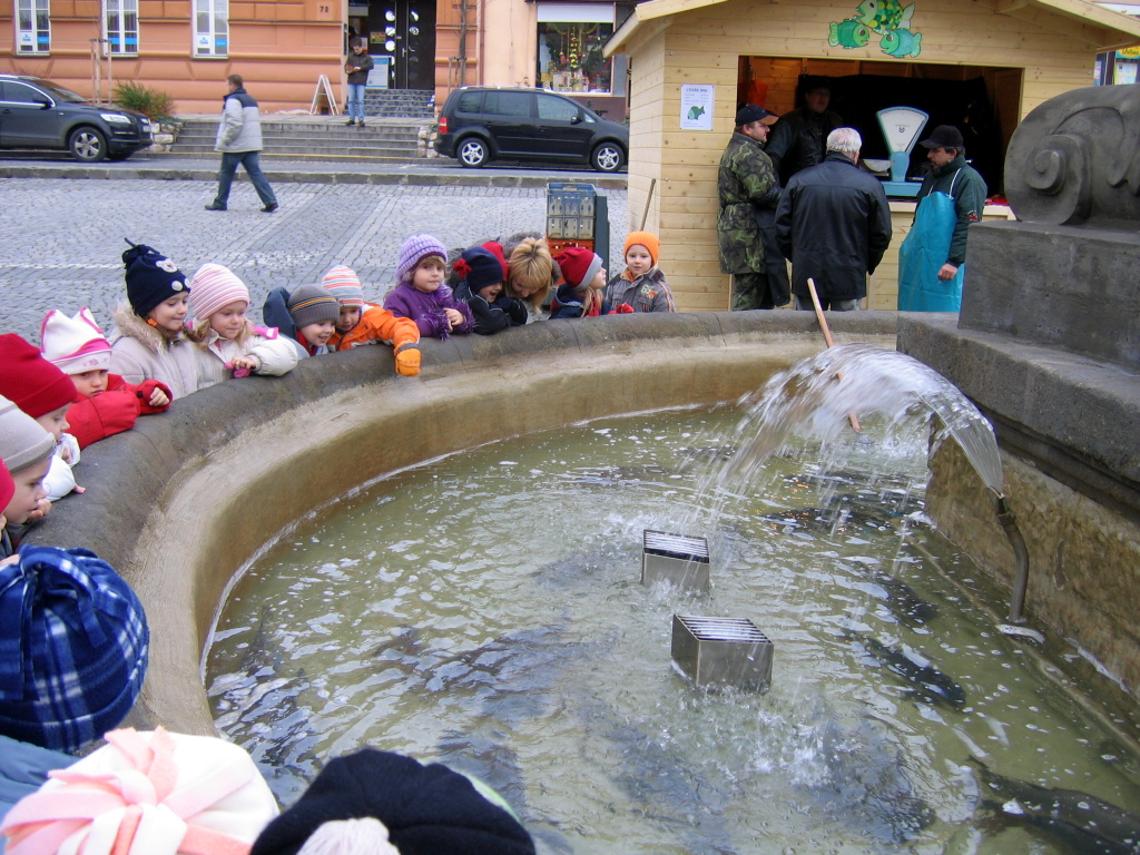 Christmas carps in public fountain in Uherský Brod